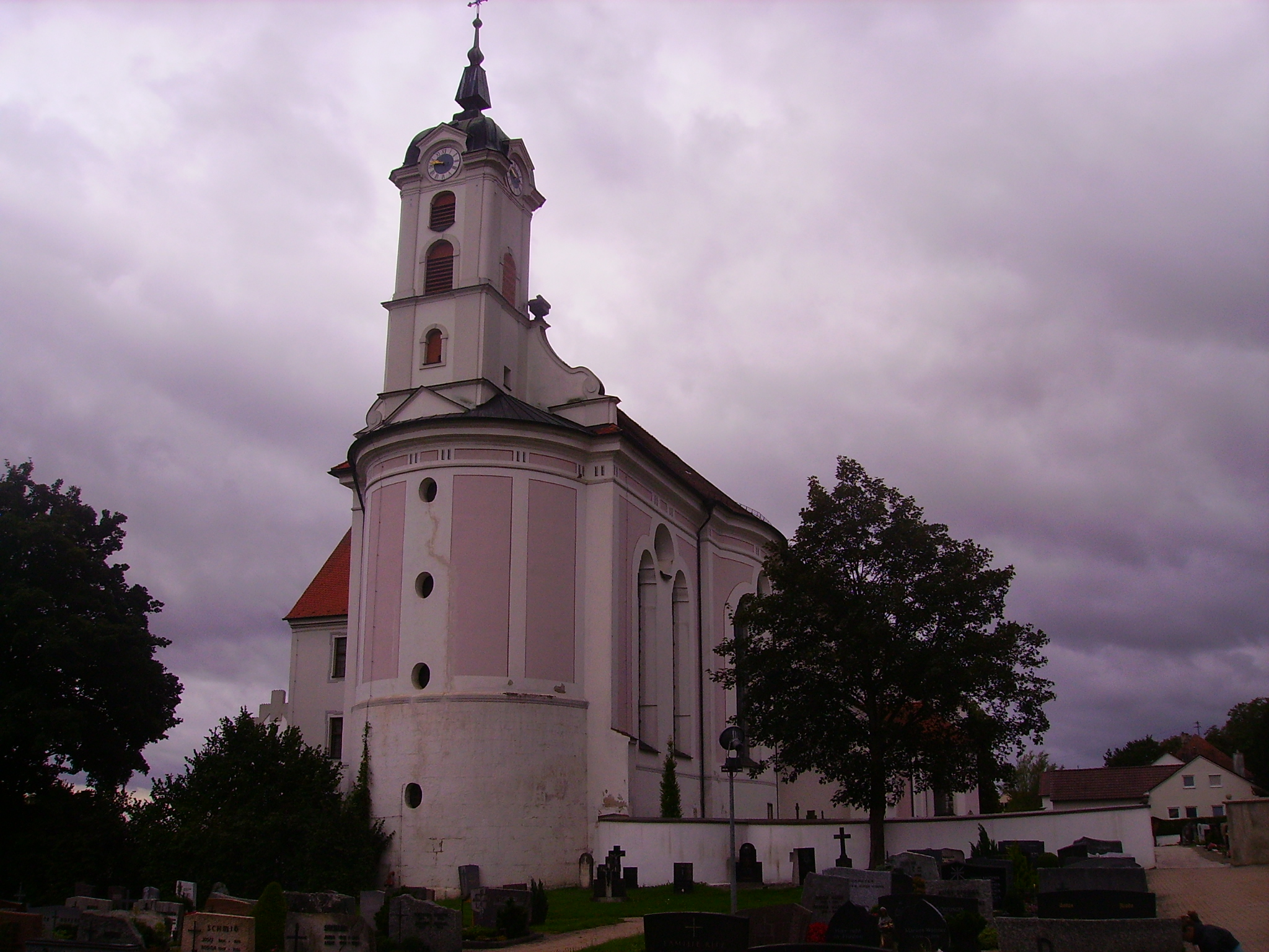 Elchingen Monastery Church Sts. Peter & Paul, Oberelchingen